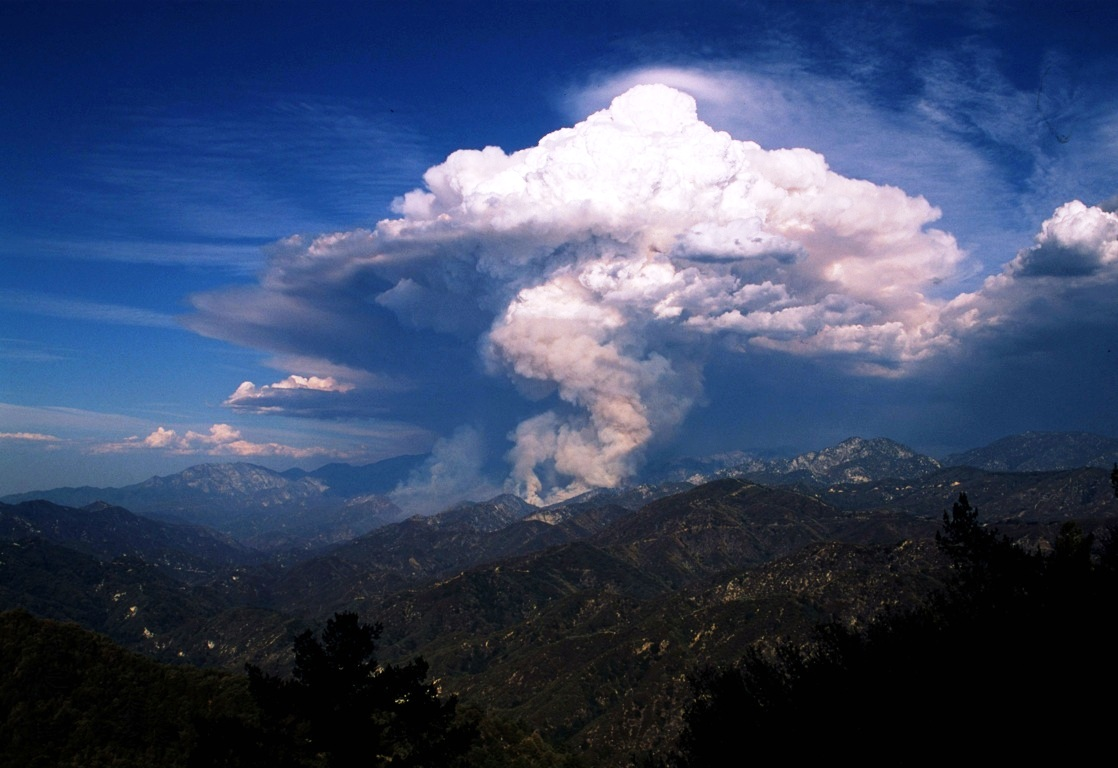 Looking east towards a brush fire in Azusa Canyon from Mount Wilson Red Box Road. Numerous cabins were burned in the fire.